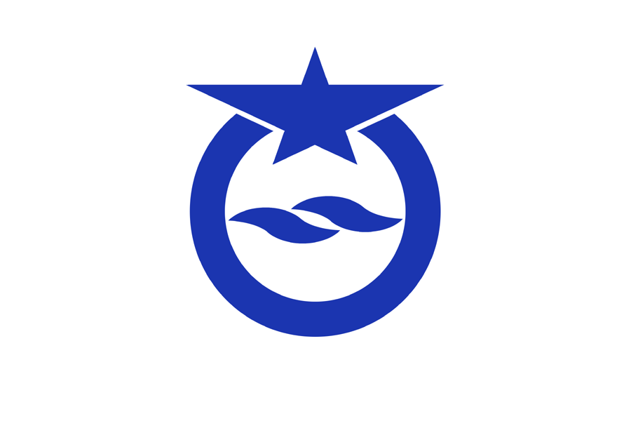 Flag of Otsu, Shiga